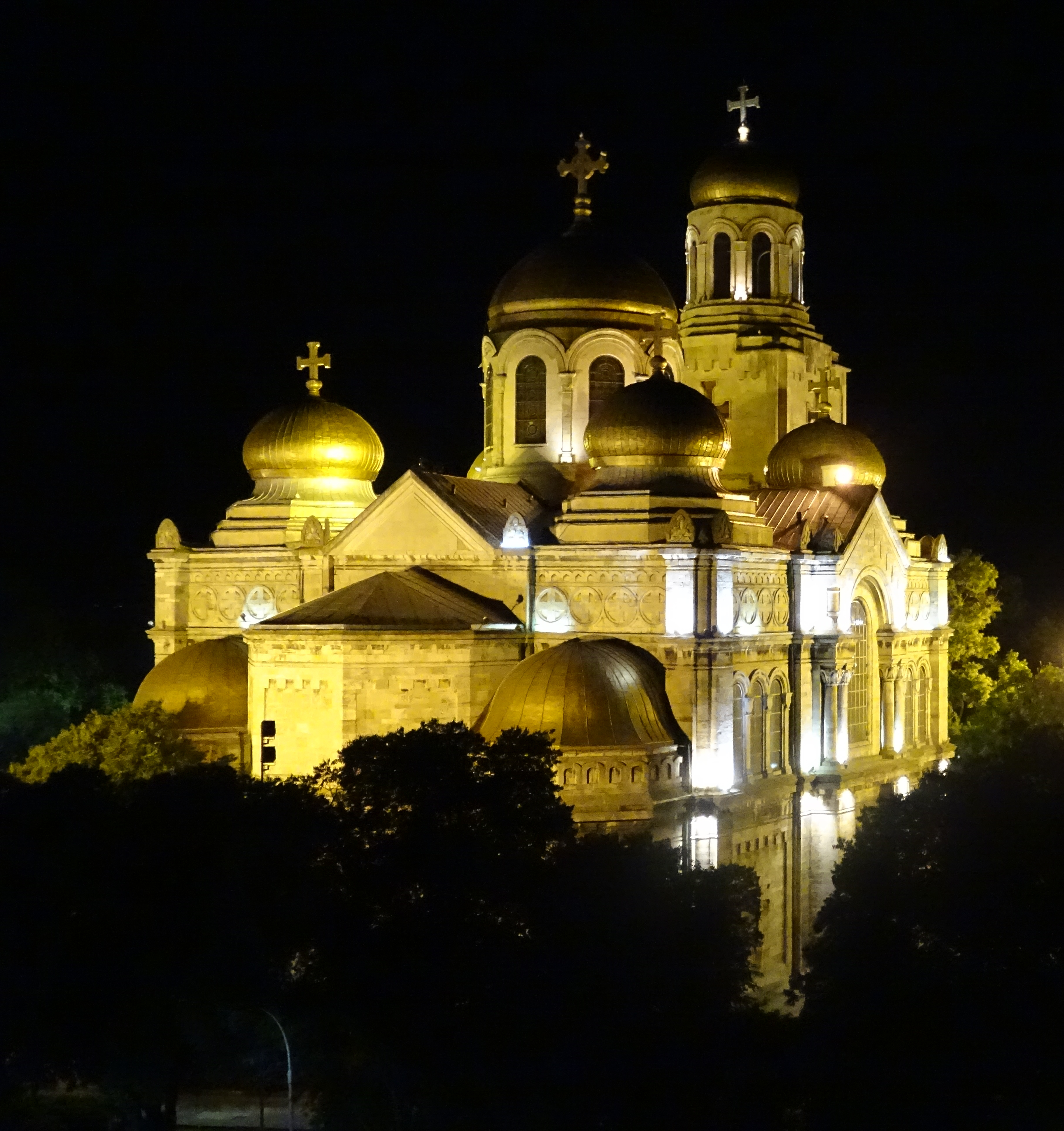 The Dormition of the Theotokos Cathedral (or Assumption of Mary Church) in Varna, Bulgaria.